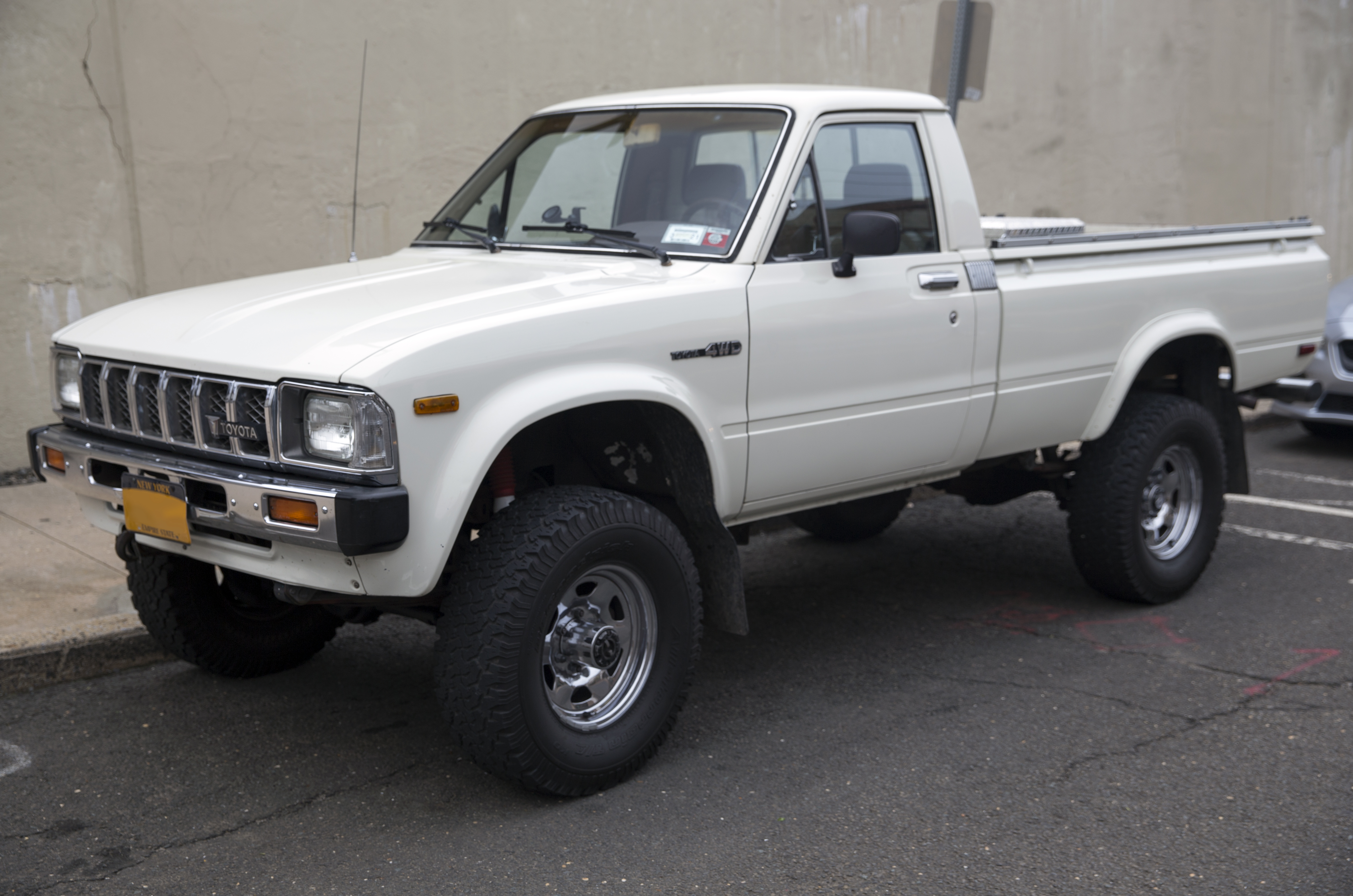 1982 Toyota Pickup SR-5 4WD in Greenwich, CT. This is a model RN48L-MSA with a five-speed manual and the 2.4-liter 22R engine.